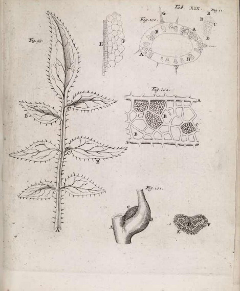 Illustration from Marcelli Malpighii ... Opera omnia, seu, Thesaurus locupletissimus botanico-medico-anatomicus :viginti quator tractatus complectens et in duos tomos distributus, quorum tractatum seriem videre est dedicatione absoluta. Lugduni Batavorum : Apud Petrum vander Aa ..., 1687